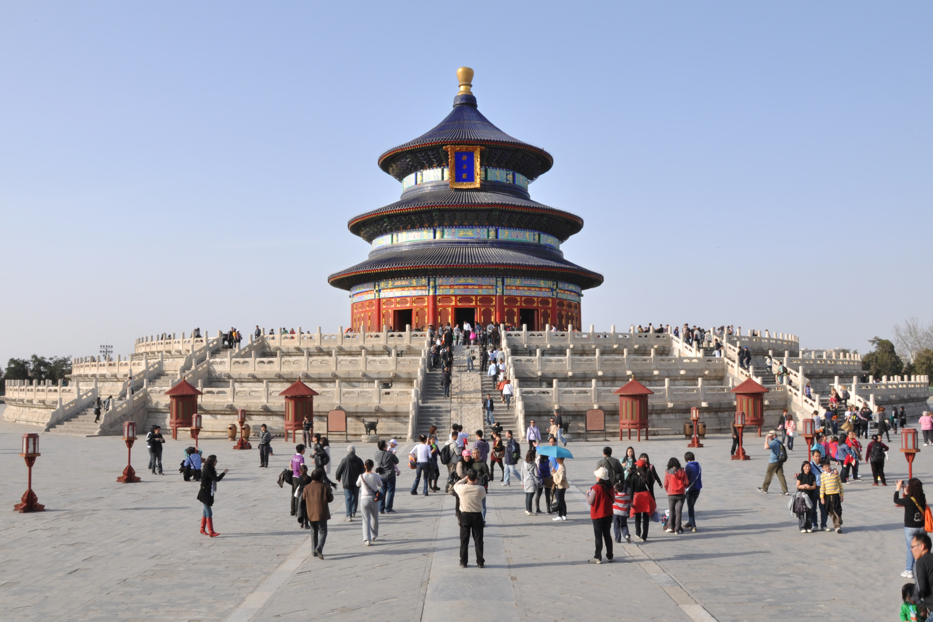 The Hall of Prayer for Good Harvest at the Temple of Heaven in Beijing. April，2010 中文（中国大陆）: 天坛祈年殿正面, 2010年春